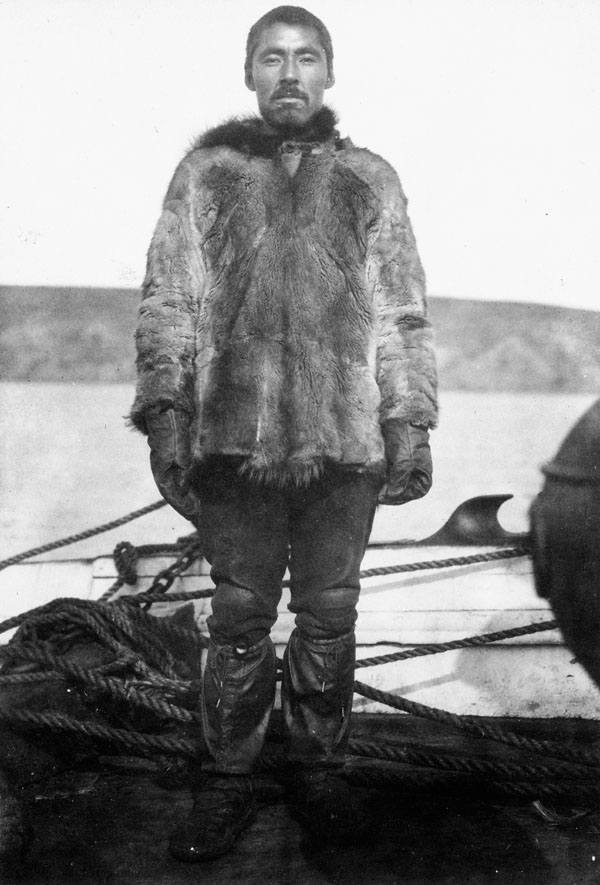 Sipadaitiak, man about 30 yrs old from Herschel Island. A sailor on S.S. "Belvedere" for the whaling season. Aug. 28, 1912. Credit: Rudolph Martin Anderson / Library and Archives Canada / C-023649